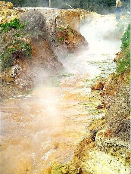 Hamamboğazı yhermal springs near Banaz, Uşak Province, Turkey.